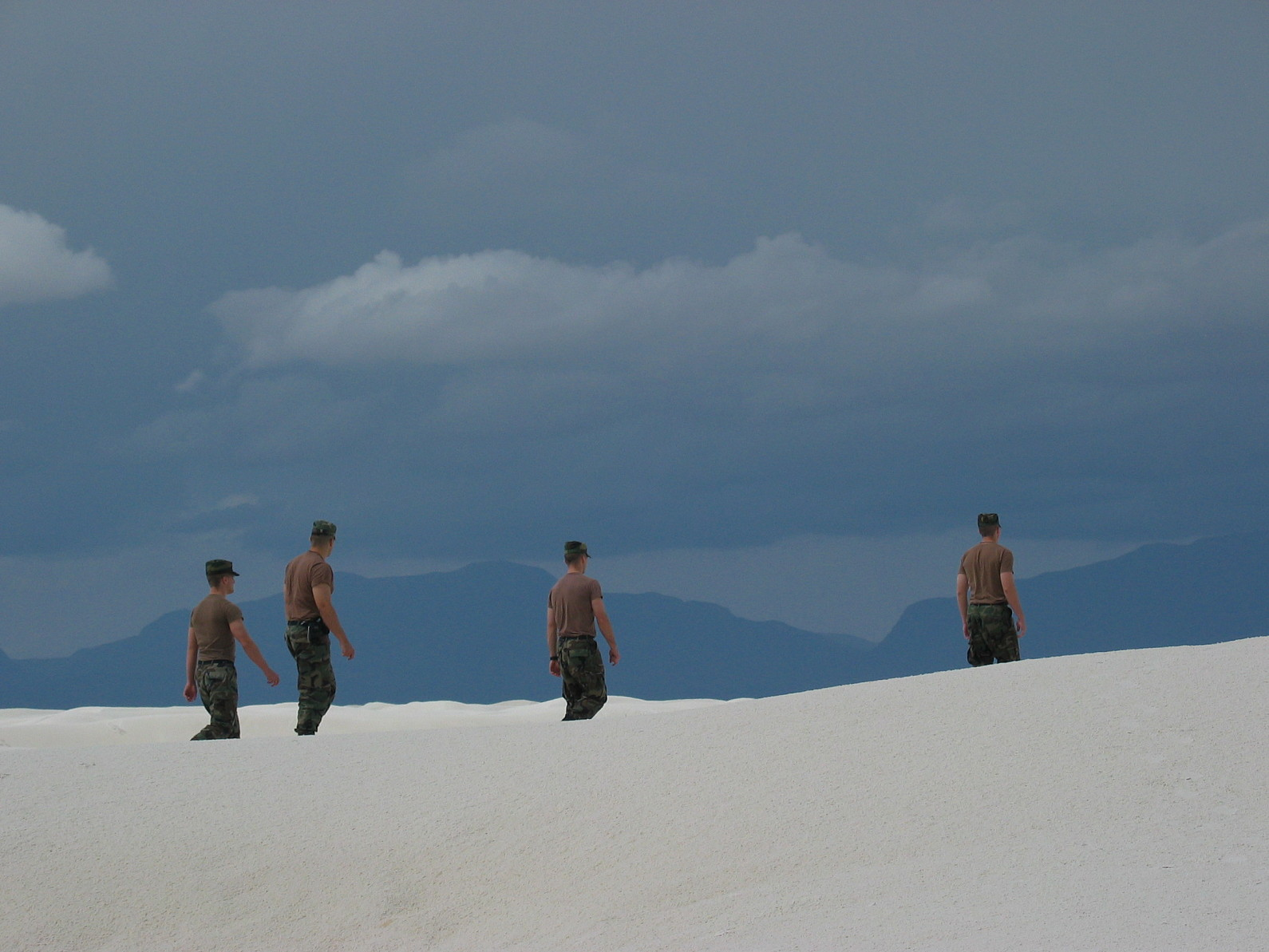 Soldiers at White Sands National Monument.